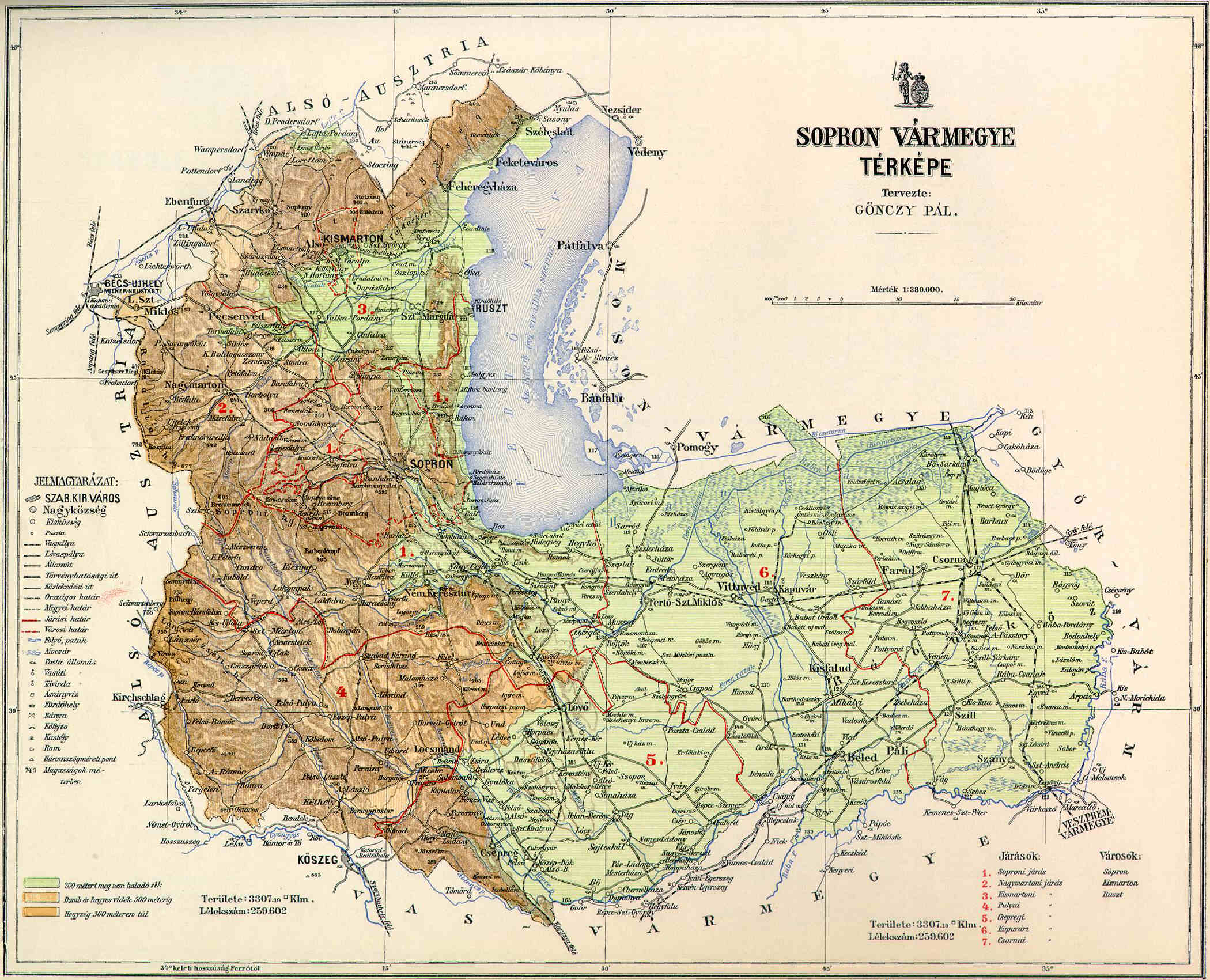 County of Sopron in the pre-Trianon Kingdom of Hungary. Komitat Sopron w Królestwie Węgier przed traktatem w Trianon.